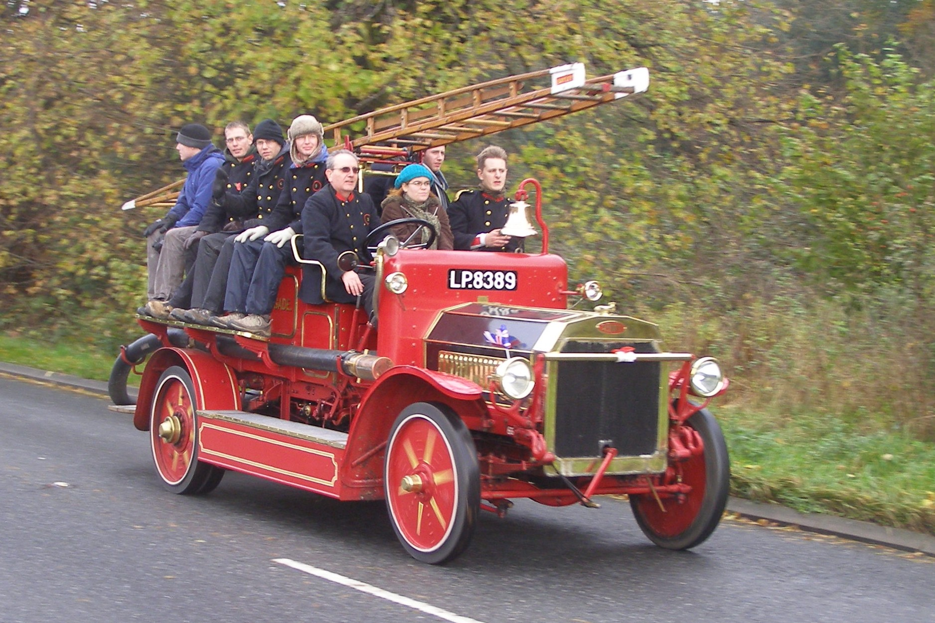 LP8389 is a 1916-built Dennis N-type fire engine owned by the Royal College of Science Motor Club following the 2008 London-to-Brighton veteran car run at Handcross, West Sussex, England